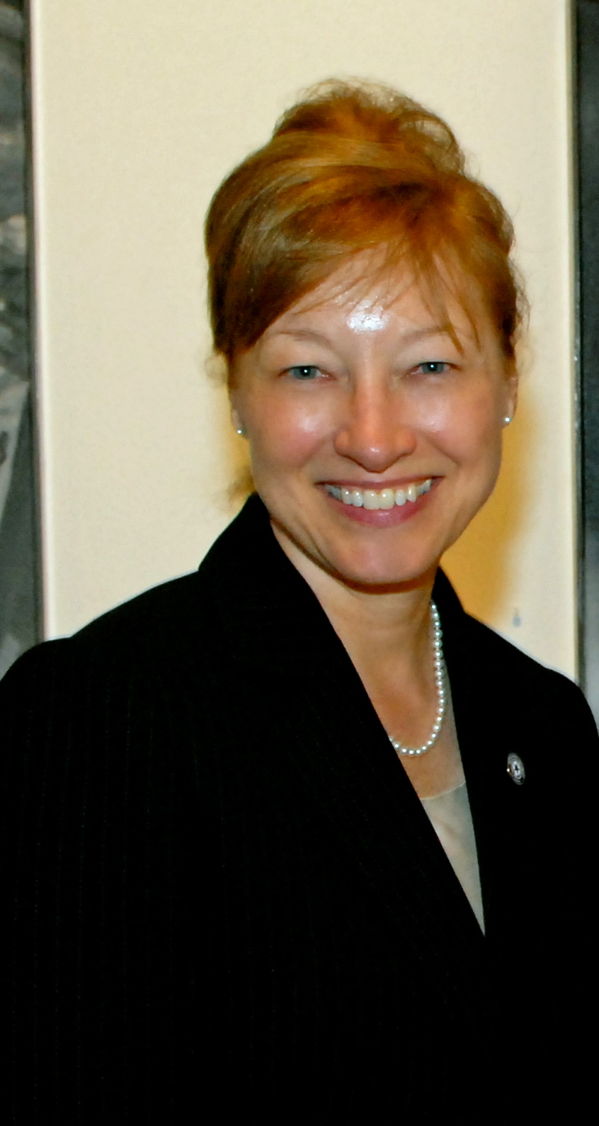 A shot of Texas State University's Ninth President.